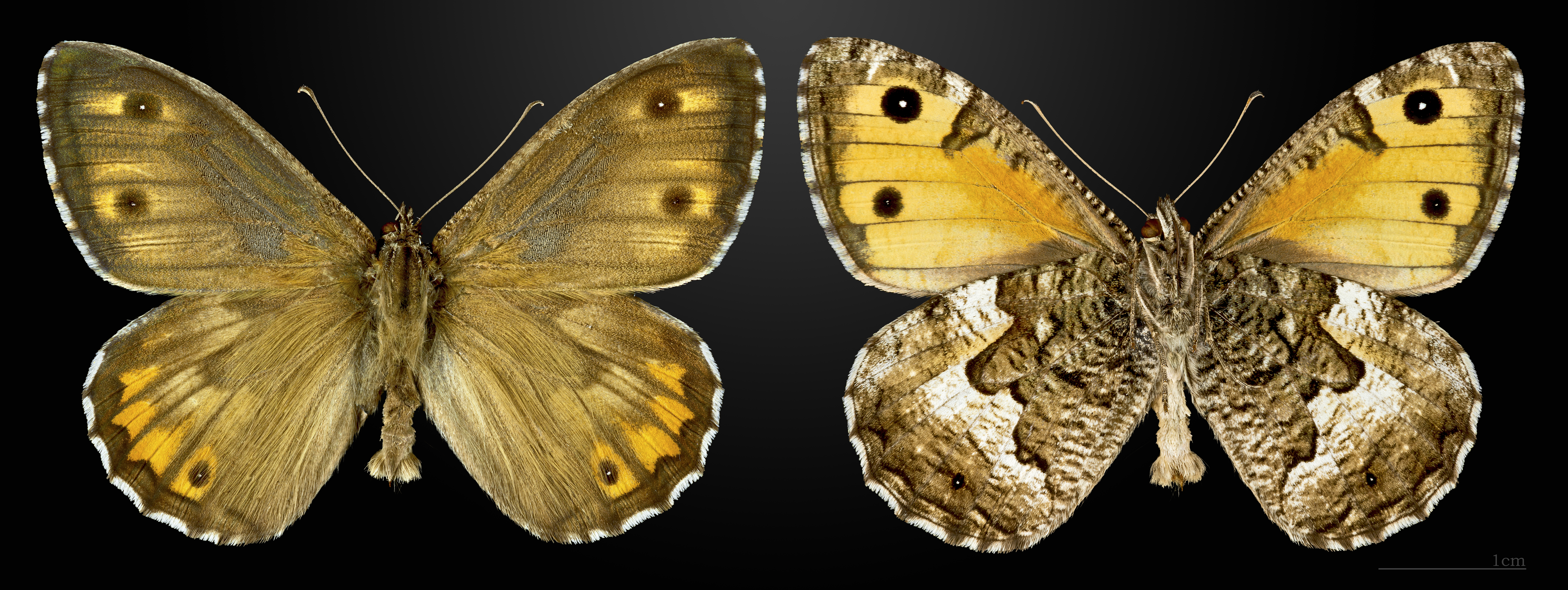 Grayling ♂ - Two views of same specimen Locality: Villegailhenc, Aude, France